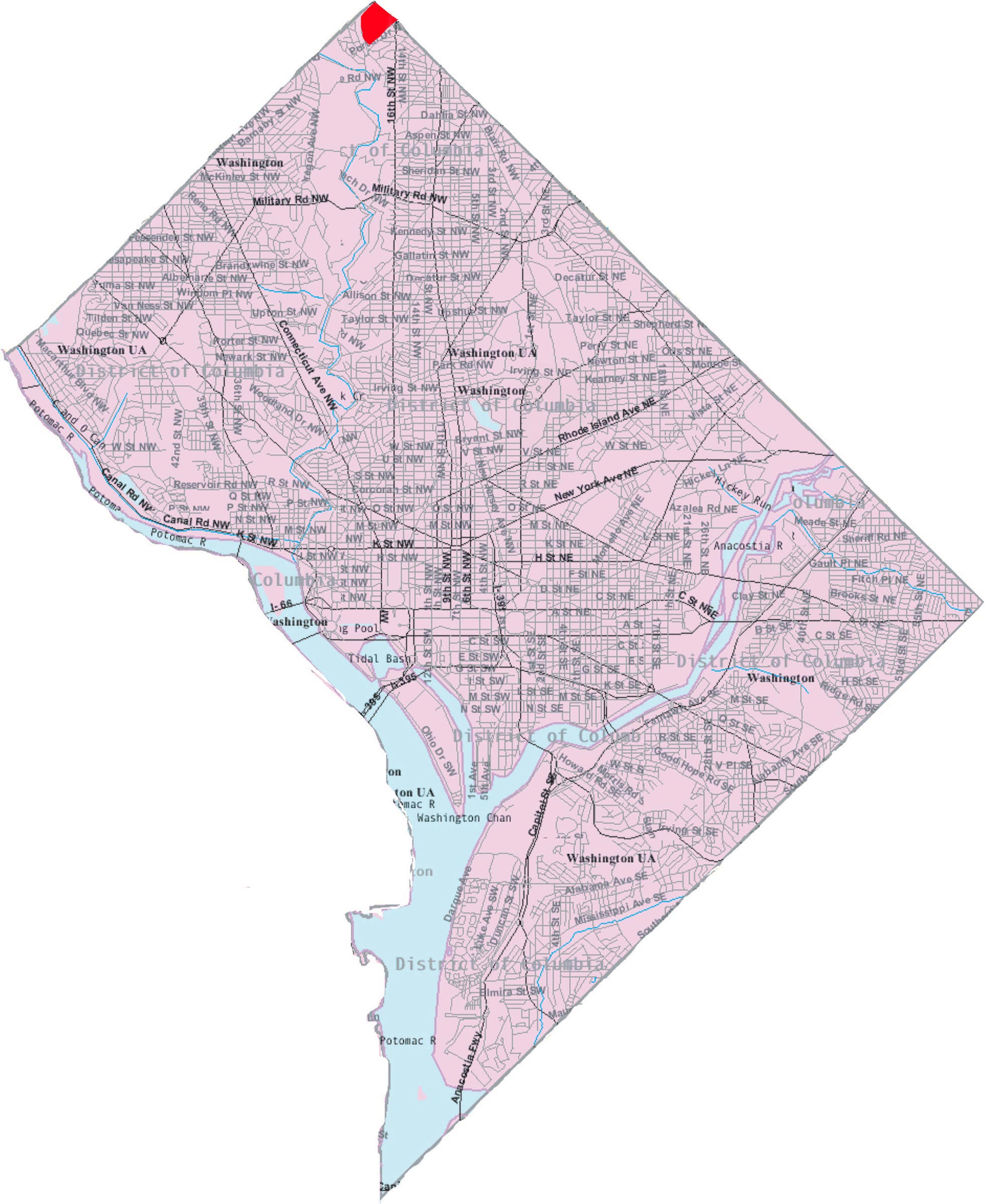 This image is a modified version of a self-generated reference map from the U.S. Census Bureau's American Factfinder at by Wikipedia user Msclguru.